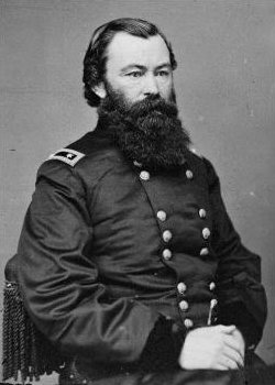 Photo of Brigadier General William Plummer Benton from 1865.